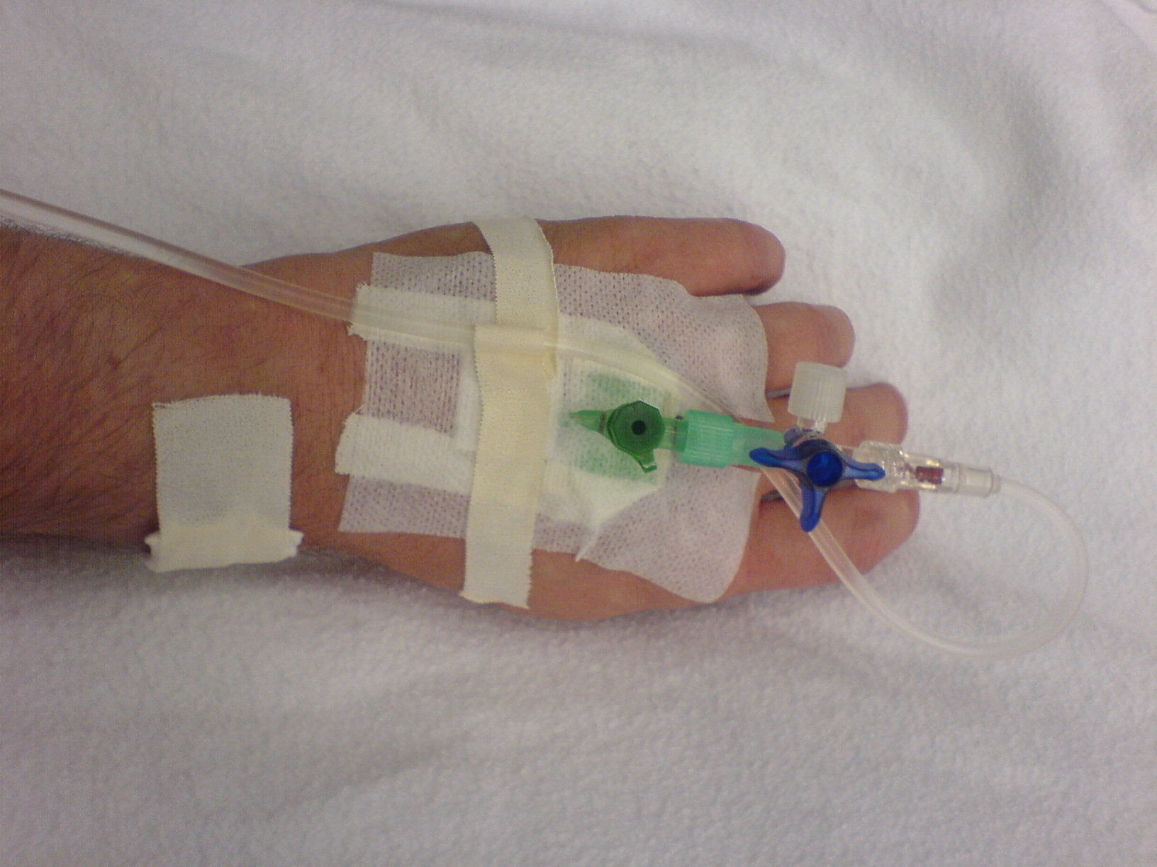 Peripheral iv line, connected to a three-way stop cock